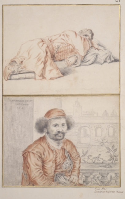 Kreidezeichnung in Schwarz und Rot, von Adriaen Matham.In: Atlas Blaeu - Van der Hem, Bd. 37:24, fol. 51, (21)